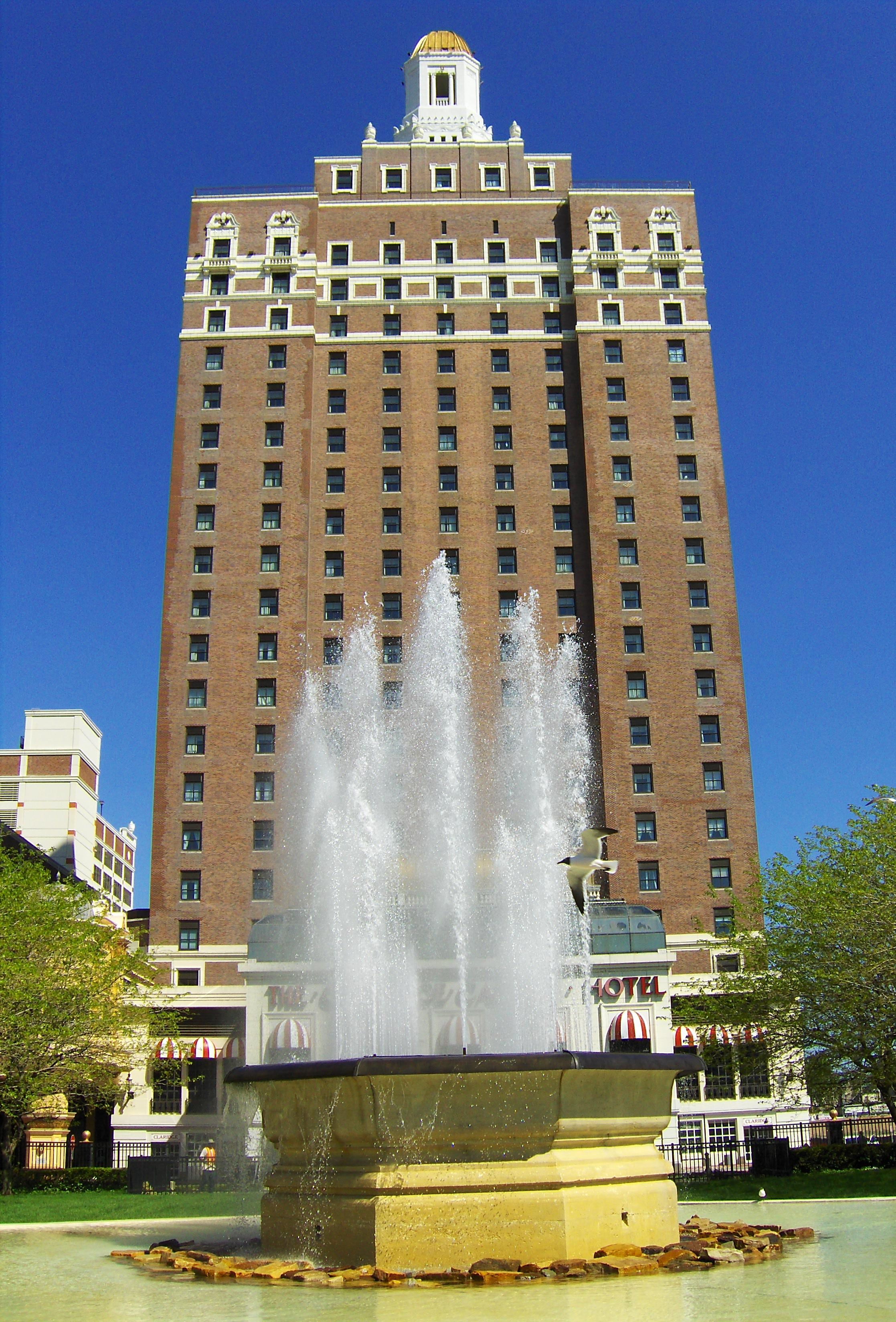 Photograph of The Claridge Tower at Bally's